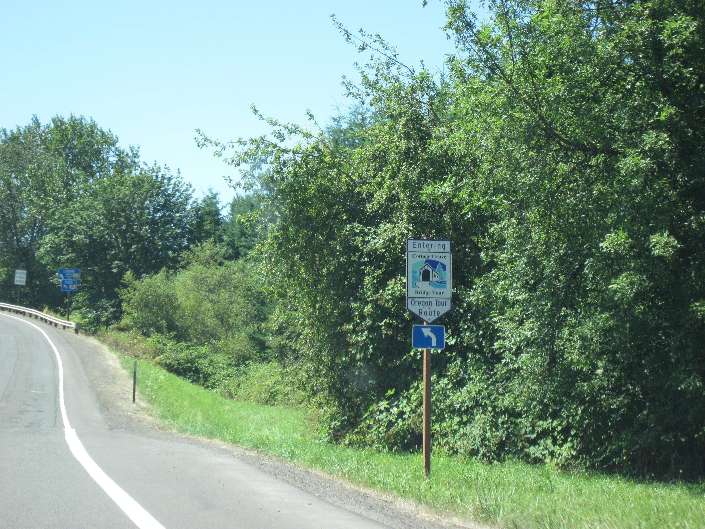 A sign leading to the Cottage Grove Covered Bridge Tour Route in Oregon.